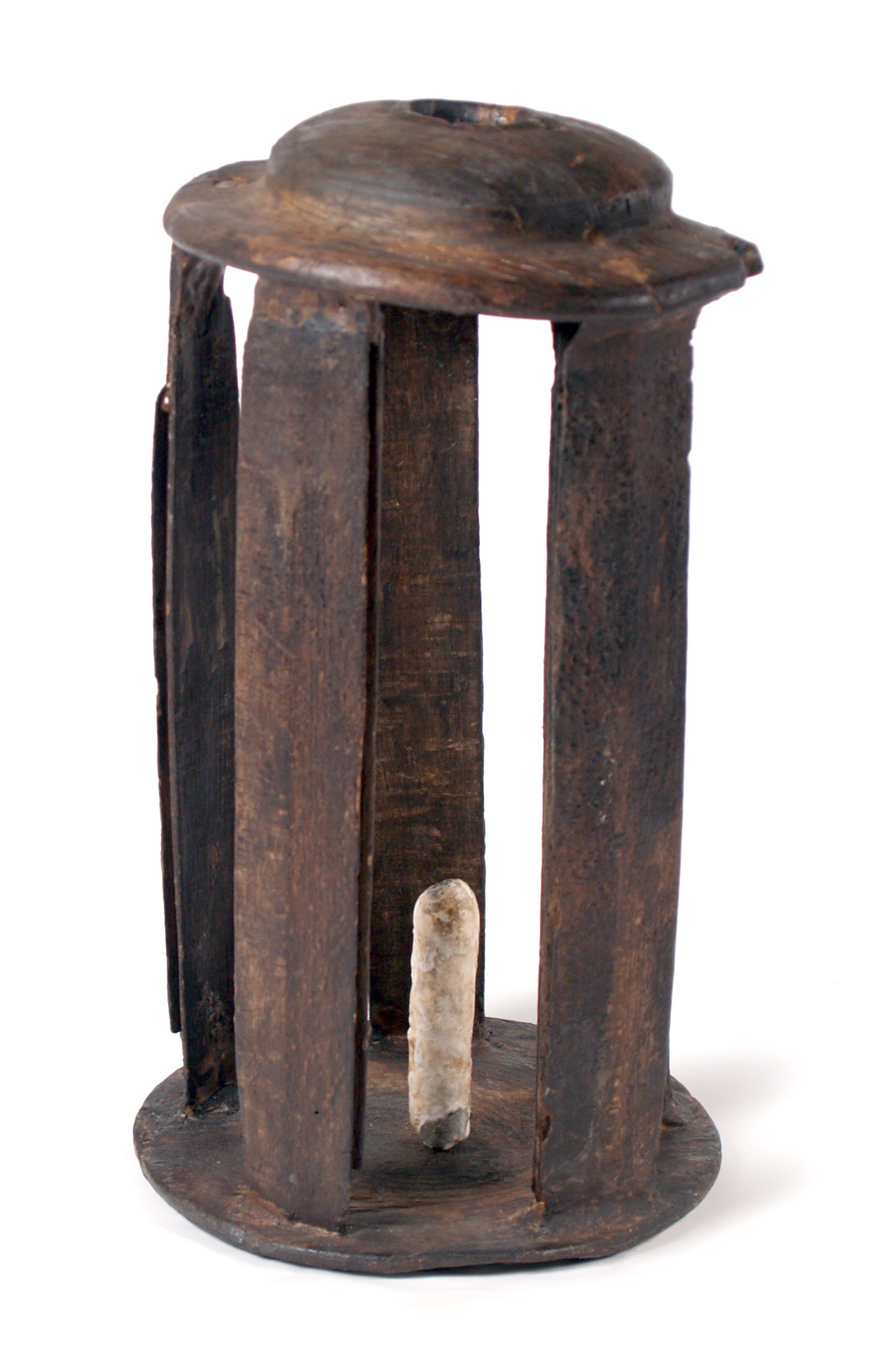 Lantern found on board the carrack Mary Rose.